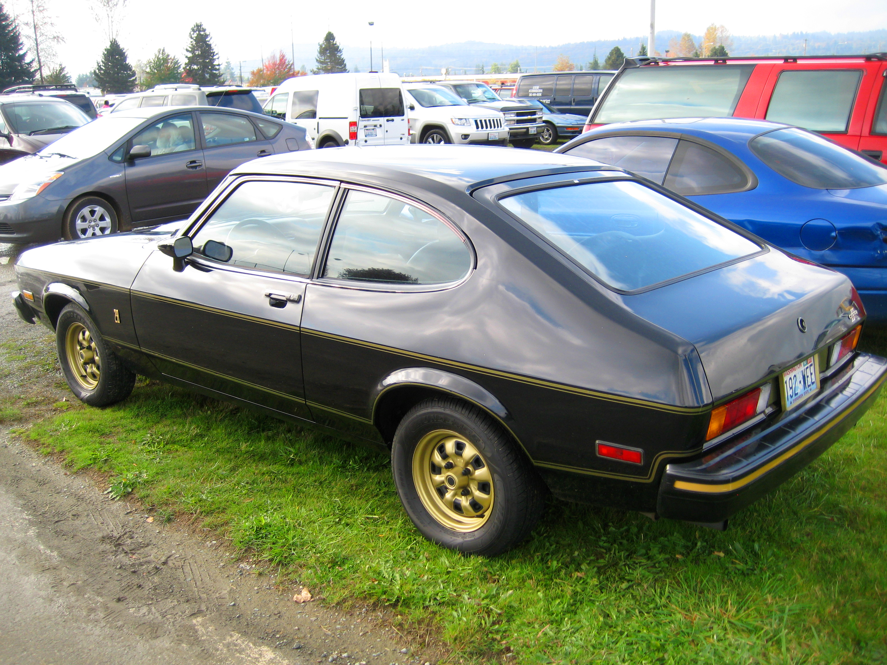 A photograph of a 1976-1978 Mercury Capri II 2.8S hatchback